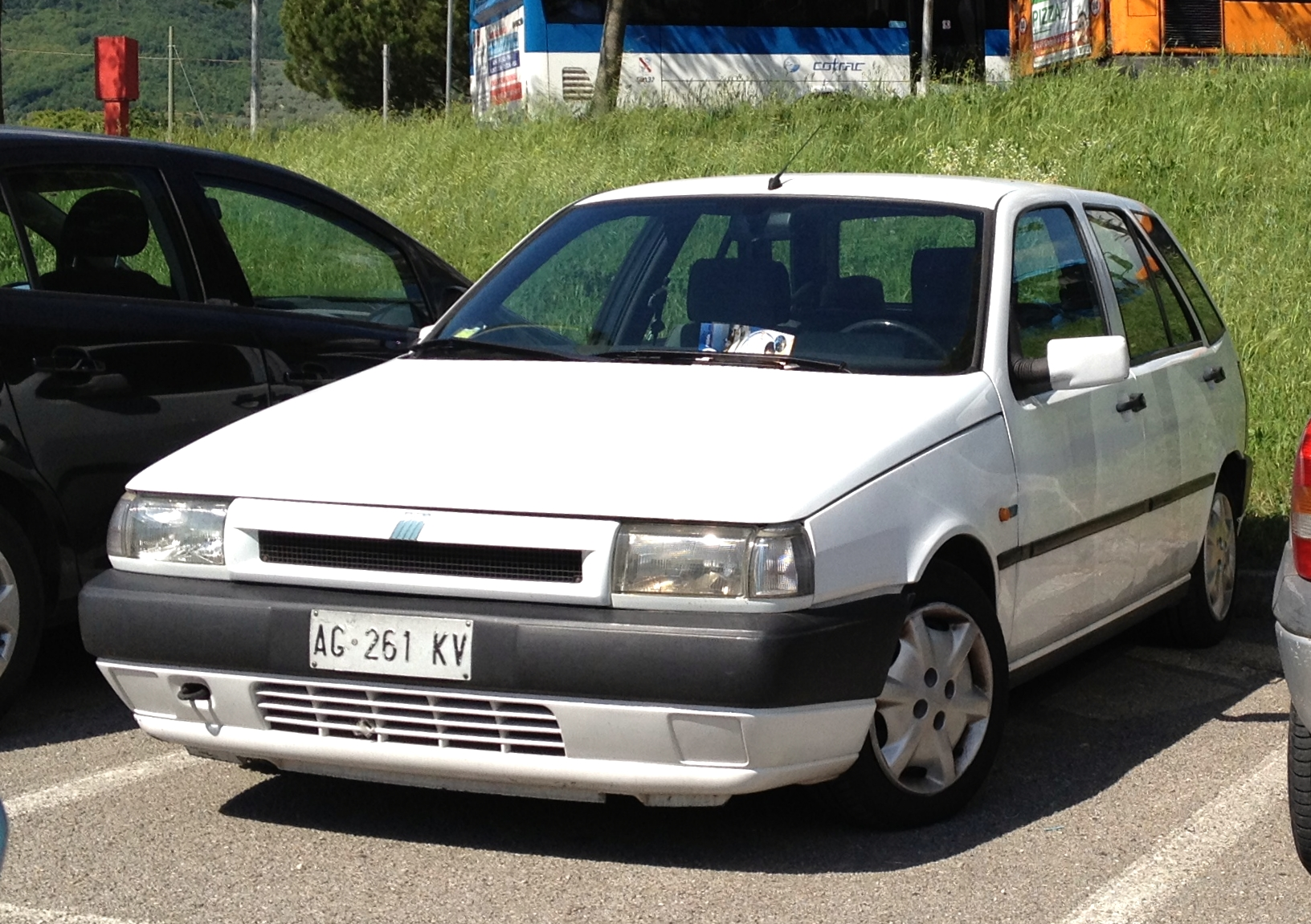 Fiat Tipo 5-door facelift